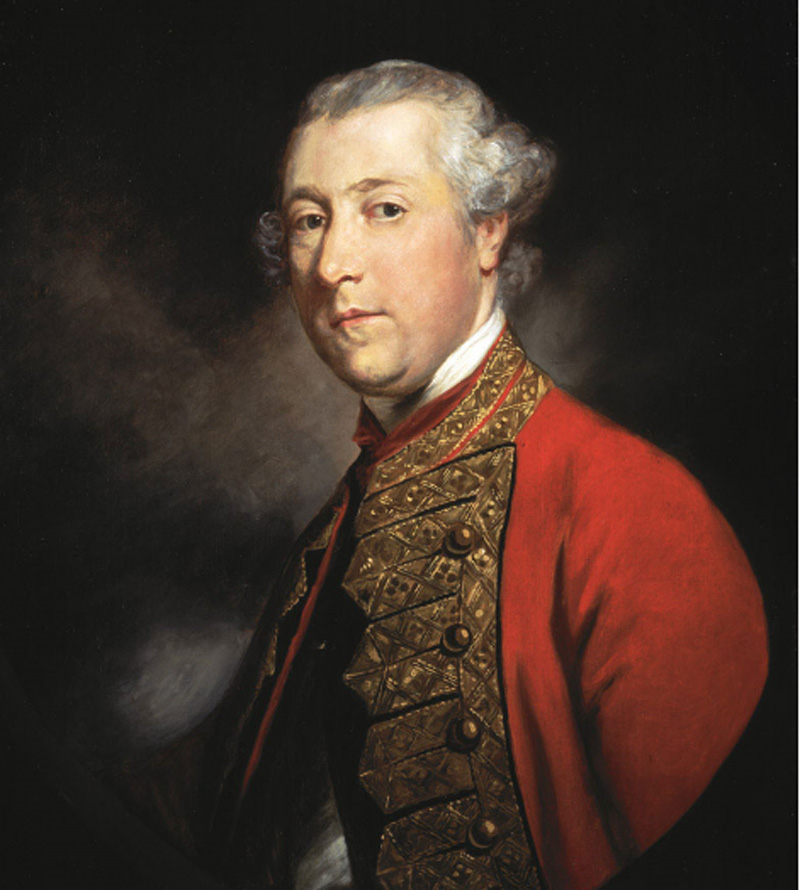 Field Marshall Sir George Howard